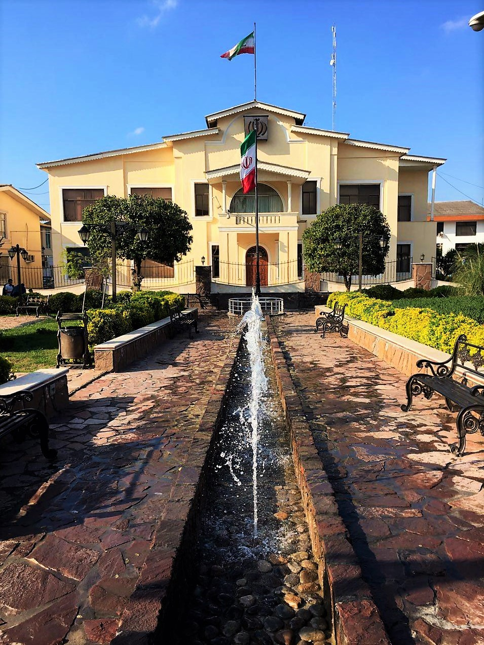 Building Municipal Amol (photo by: iphone 6s)